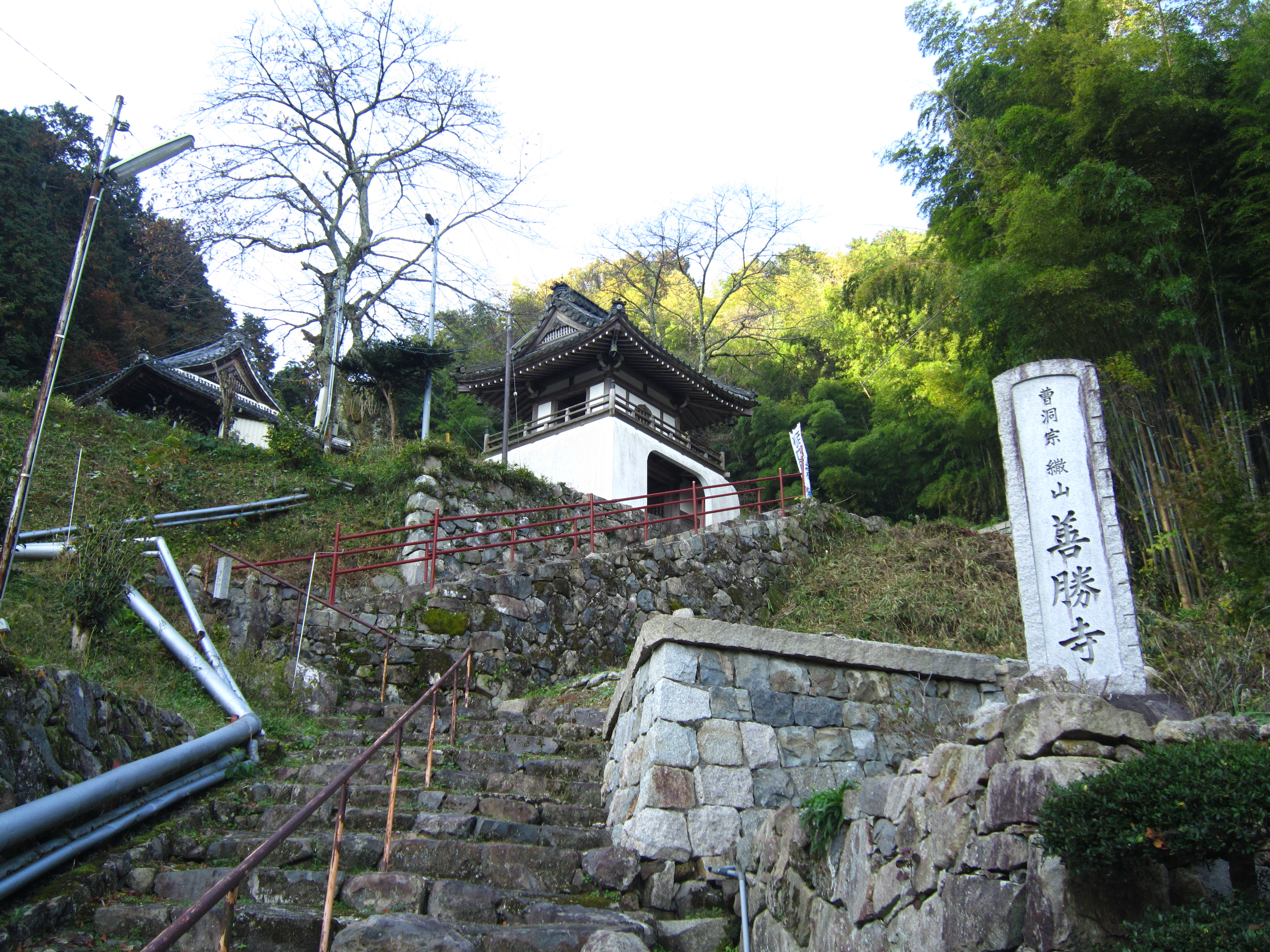 Zensho-ji of Higashiomi